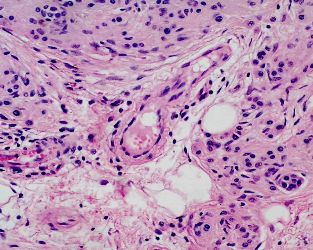 Congenital melanocytic naevus